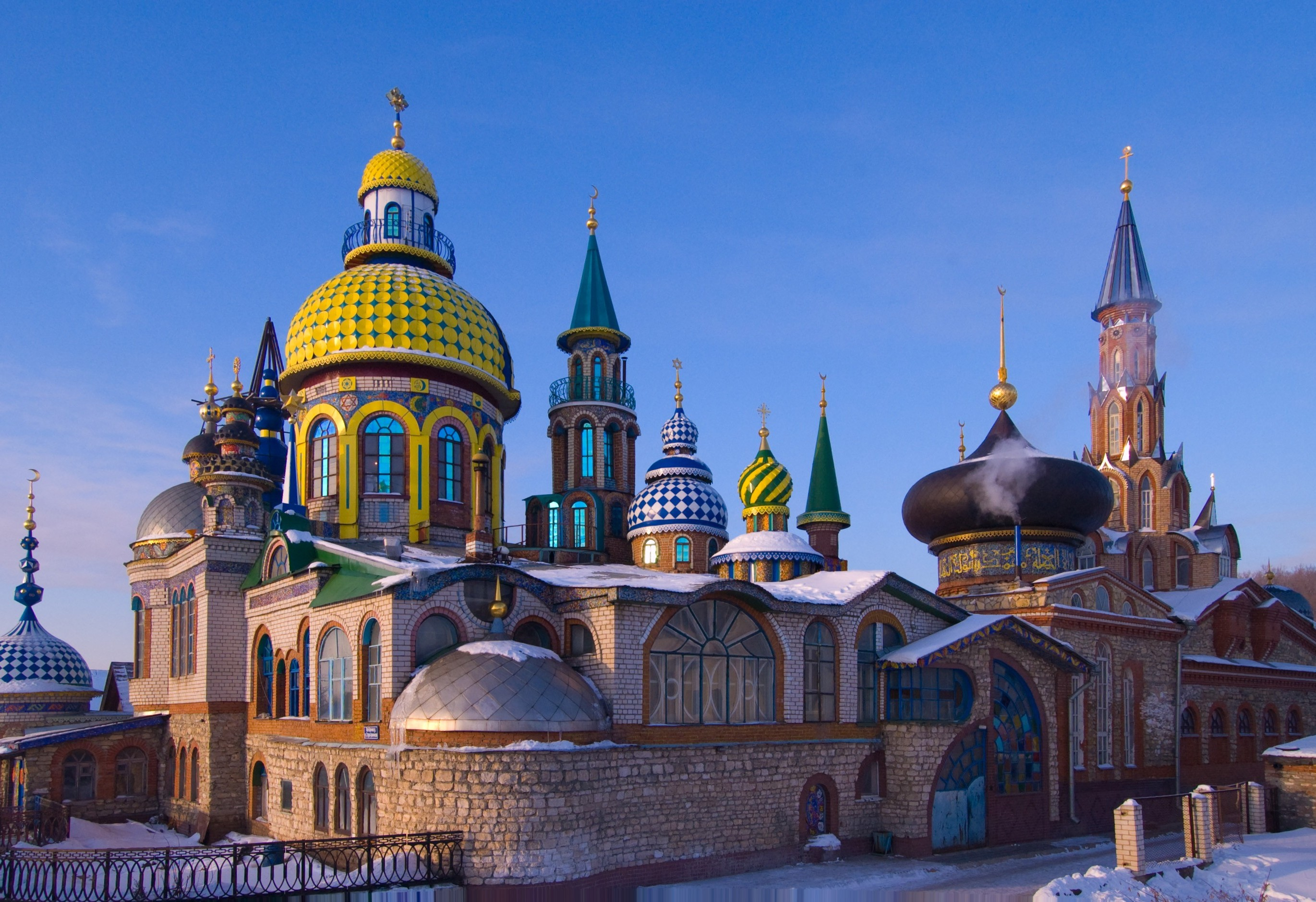 All Religions Temple. A building and cultural center build by the local artist Ildar Xanov.